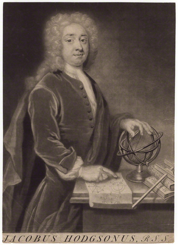 Portrait of James Hodgson (1672–1755), English mathematician.